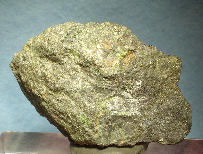 Tellurium, Emmonsite Locality: Silver City, Grant County, New Mexico, USA (Locality at ) Size: 6.0 x 3.5 x 2.2 cm. Brilliant, silver-metallic, parallel-growth lathes of native tellurium are scattered on both sides of this very rare, older specimen from Silver City, New Mexico. The large lathe is 1.0 cm, large for the species. The lathes are in a very rich matrix of tellurium microcrystals and massive ore. Richly dispersed on the matrix are green crystal clusters of the rare iron, tellurium oxide emmonsite. This is probably 100 year-old material, but no proof. Ex. George Elling Collection. Weighs 63 grams.